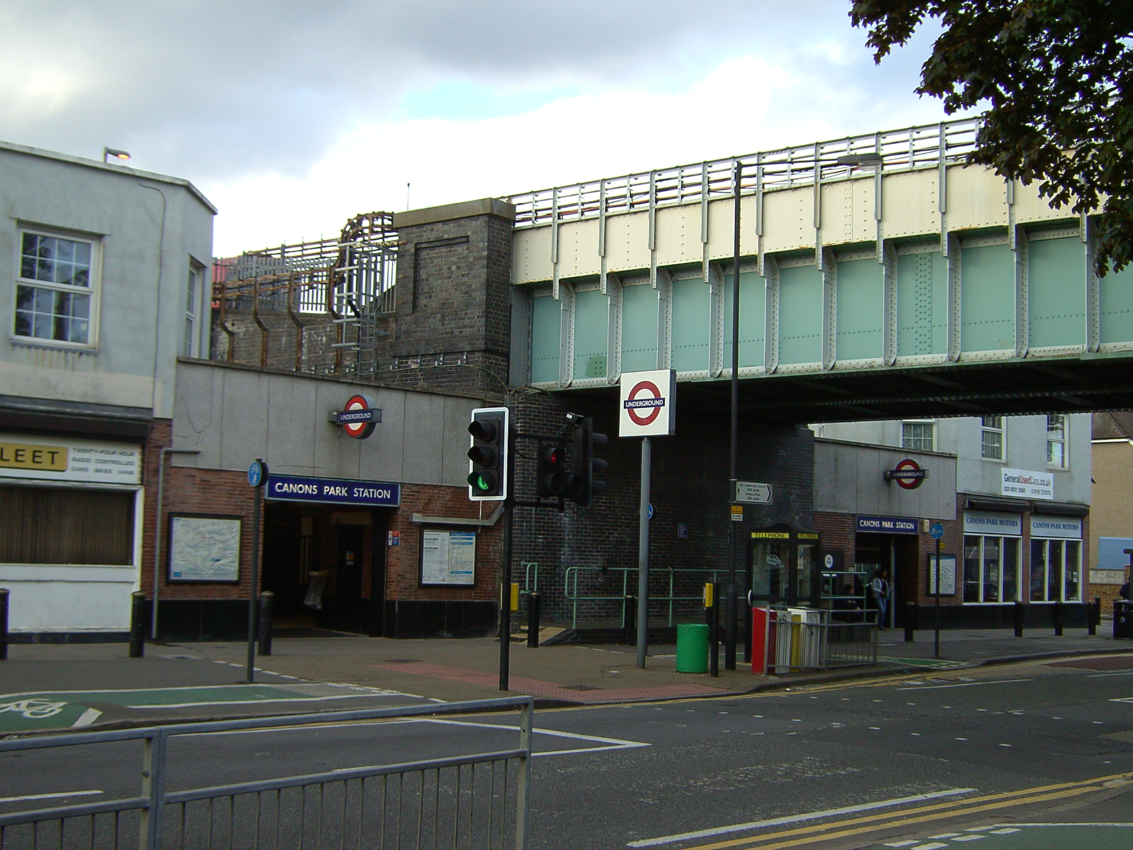 Canons Park Tube Station.